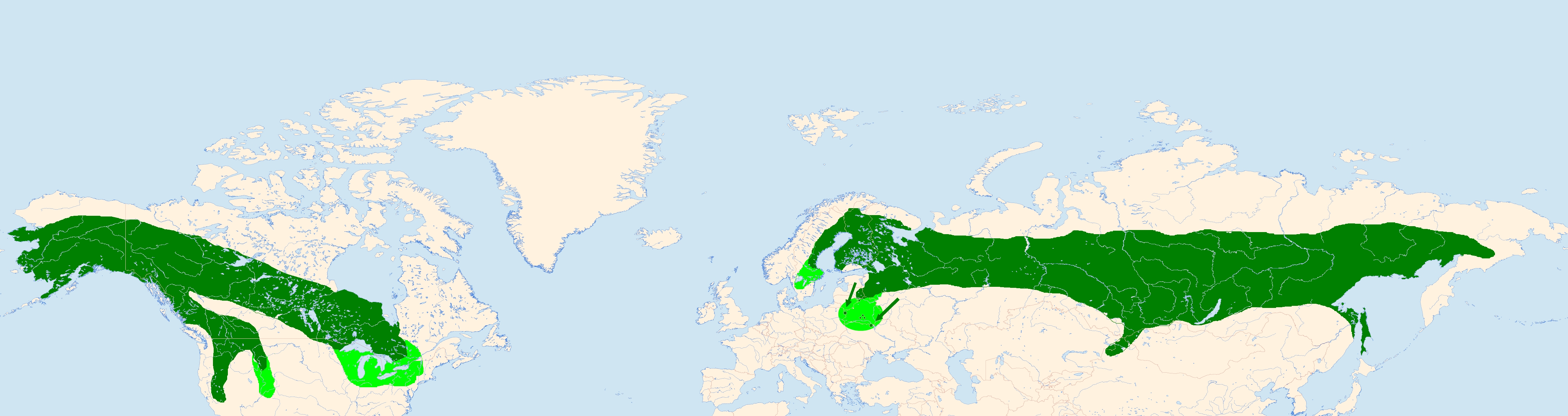 Strix nebulosa: Range Map